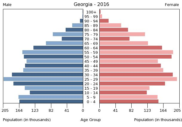 The population pyramid of Georgia illustrates the age and sex structure of population and may provide insights about political and social stability, as well as economic development. The population is distributed along the horizontal axis, with males shown on the left and females on the right. The male and female populations are broken down into 5-year age groups represented as horizontal bars along the vertical axis, with the youngest age groups at the bottom and the oldest at the top. The shape of the population pyramid gradually evolves over time based on fertility, mortality, and international migration trends.